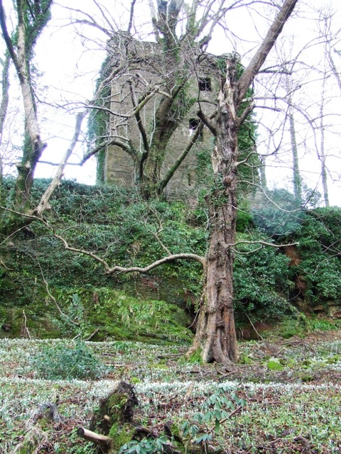 Inverkip castle This ruined castle is in the private garden of Ardgowan House and it is therefore not possible to get a clear shot of it. This view is from a dirt track which runs below the cliff to the south.